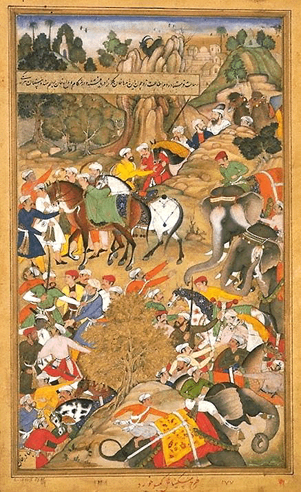 This illustration from the Akbarnama depicts an episode in 1572 during the march of Mughal forces led by Khan Kilan during the campaign against Gujarat. This army formed the vanguard of the Mughals as it made its way through the Rajput territory of Sirohi. Man Singh Deohra, the chief of the Sirohi Rajputs, dispatched envoys to Khan Kilan. But at the end of their audience, one of the envoys stabbed the general in the shoulder. Khan Kilan’s men leapt forward and killed the attacker and his companions.